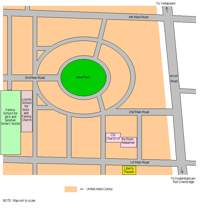 Tentative Map of United India Colony